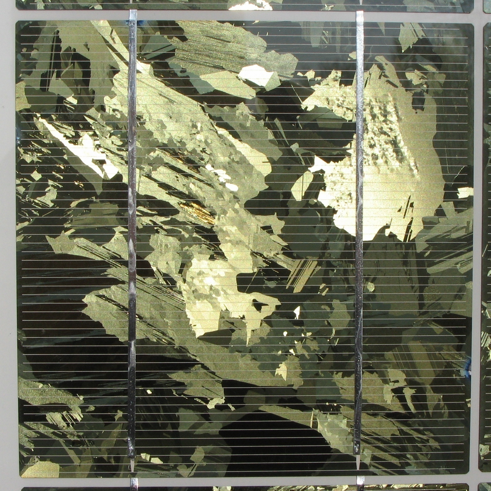 polycrystalline solar-cell found at Tübingen's sportshall